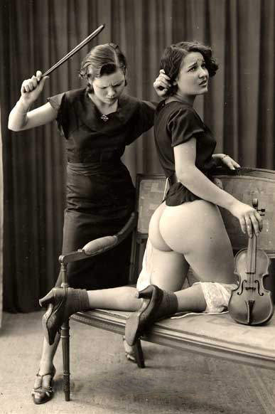 A female violin student getting spanked by the violin bow by a strict female teacher